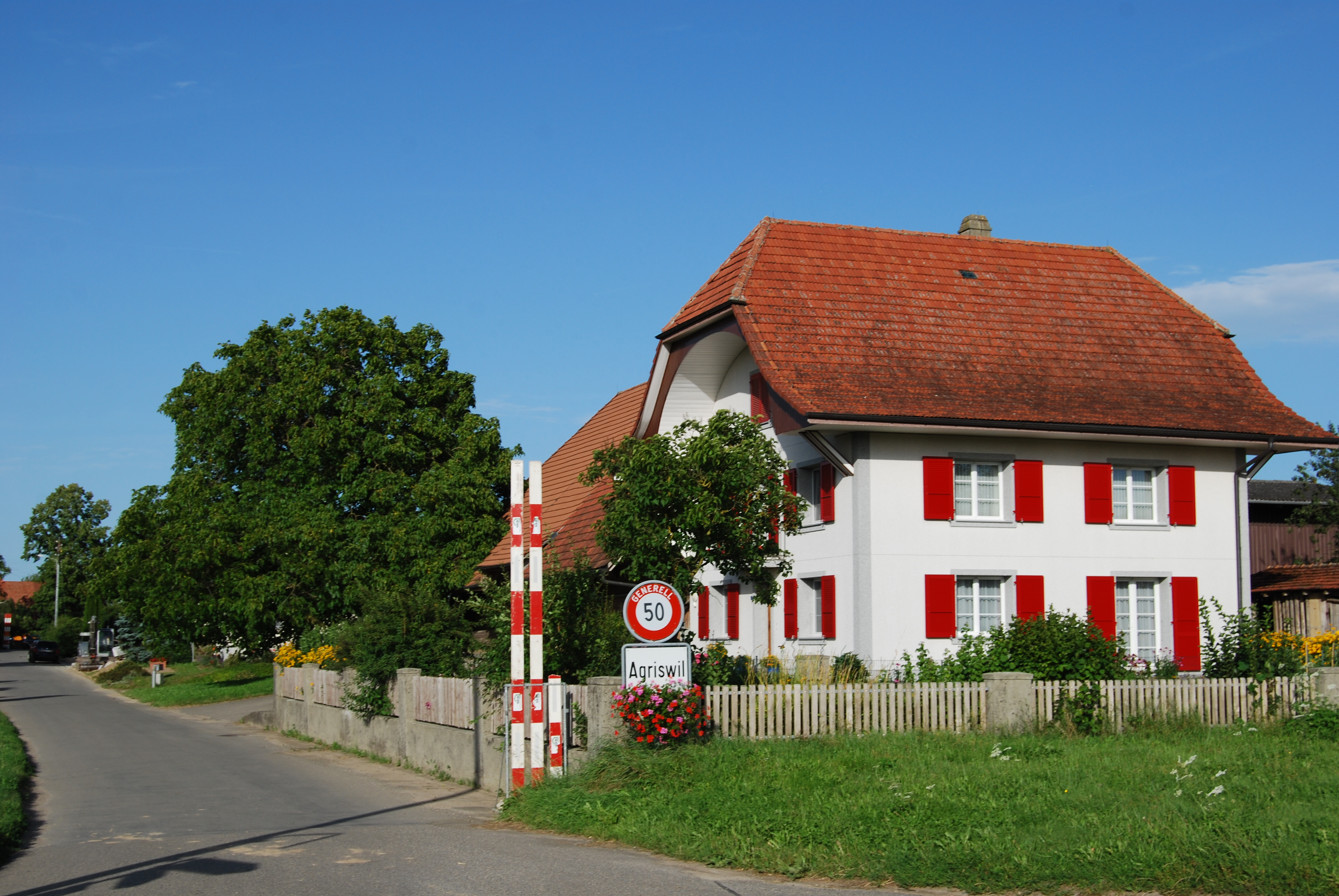 Agriswil, municipality Ried bei Kerzers, canton of Fribourg, Switzerland